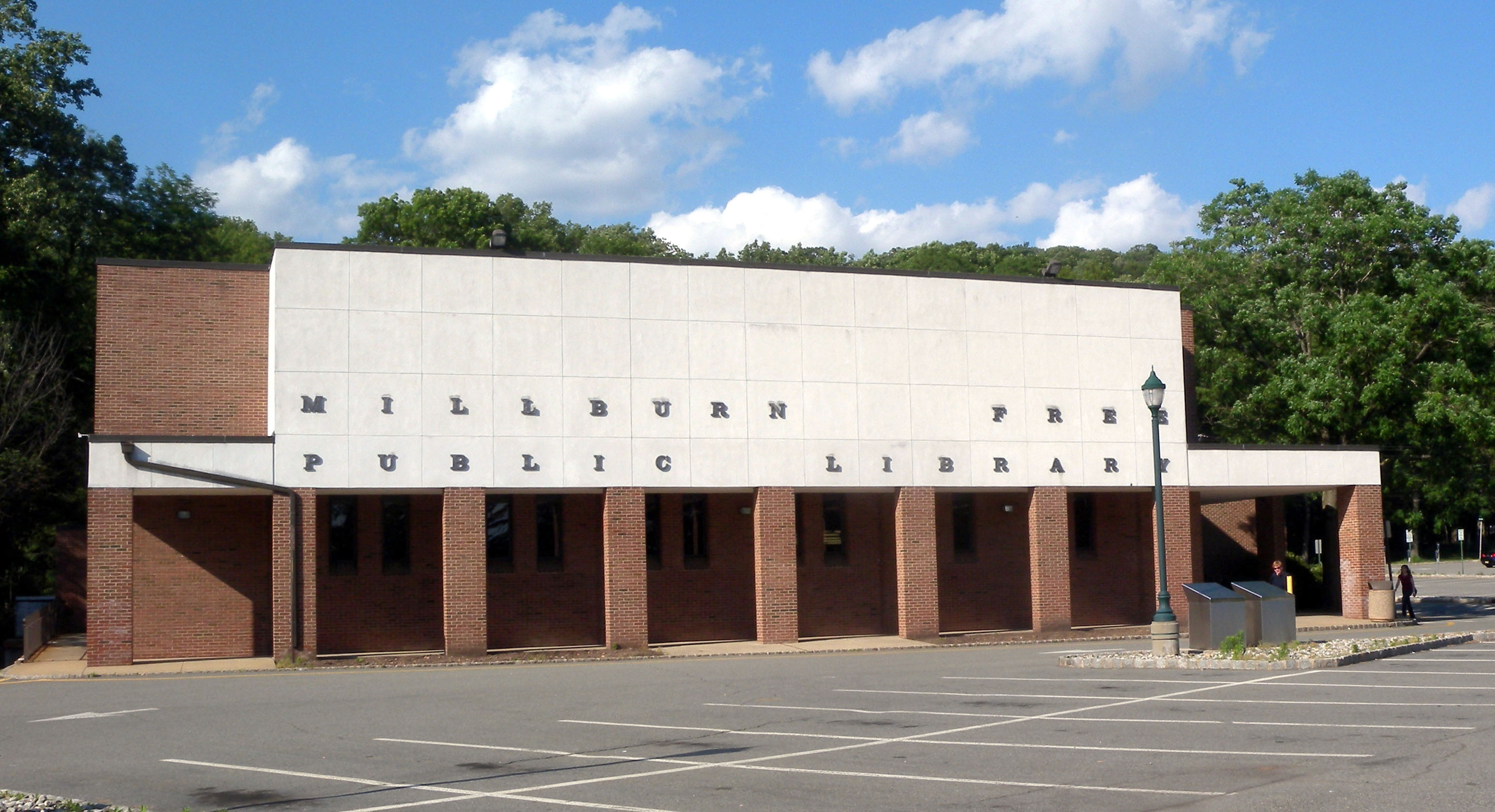 Looking northeast across parking lot at Millburn, New Jersey Free Public Library on a sunny afternoon. Single "l" in name is photographer's error.